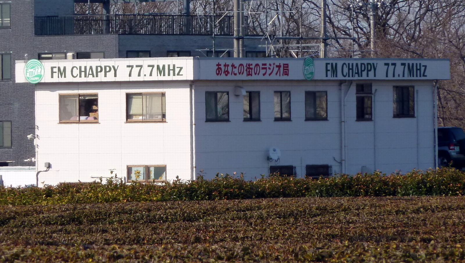 FM Chappy.